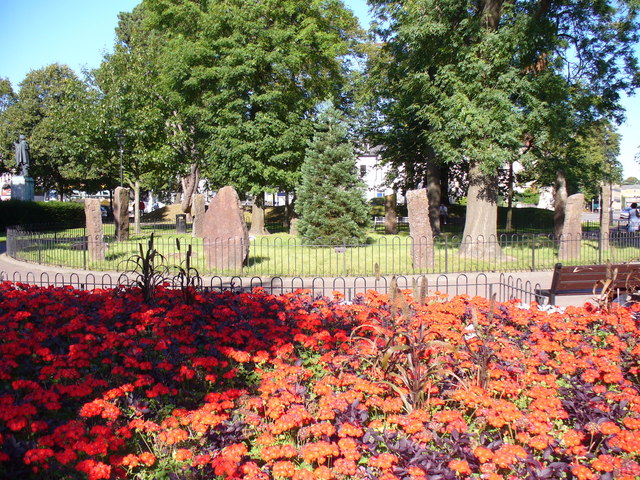 Gorsedd Stones